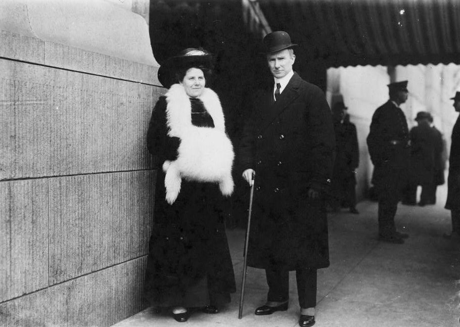 Capt. Rostron, of the Carpathia, and his wife